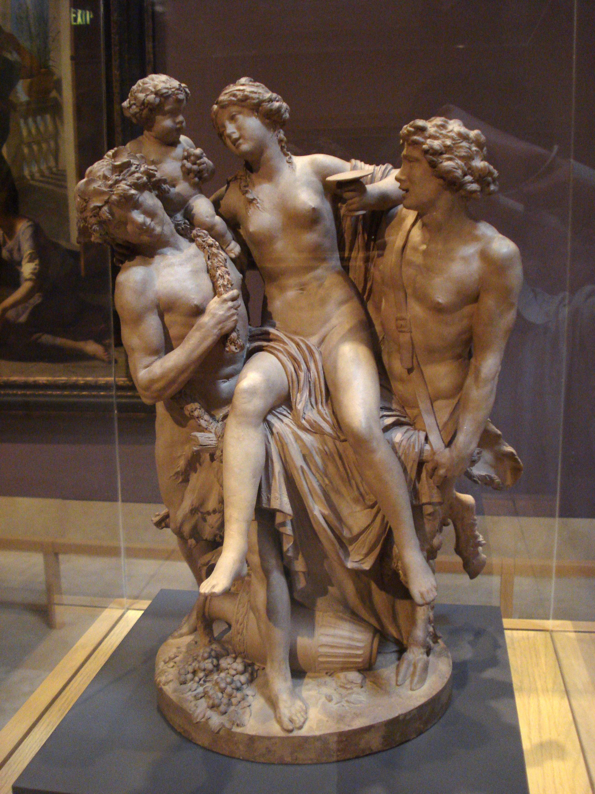 Clodion, Bacchante Supported by Bacchus and a Faun, 1795 Norton Simon Museum